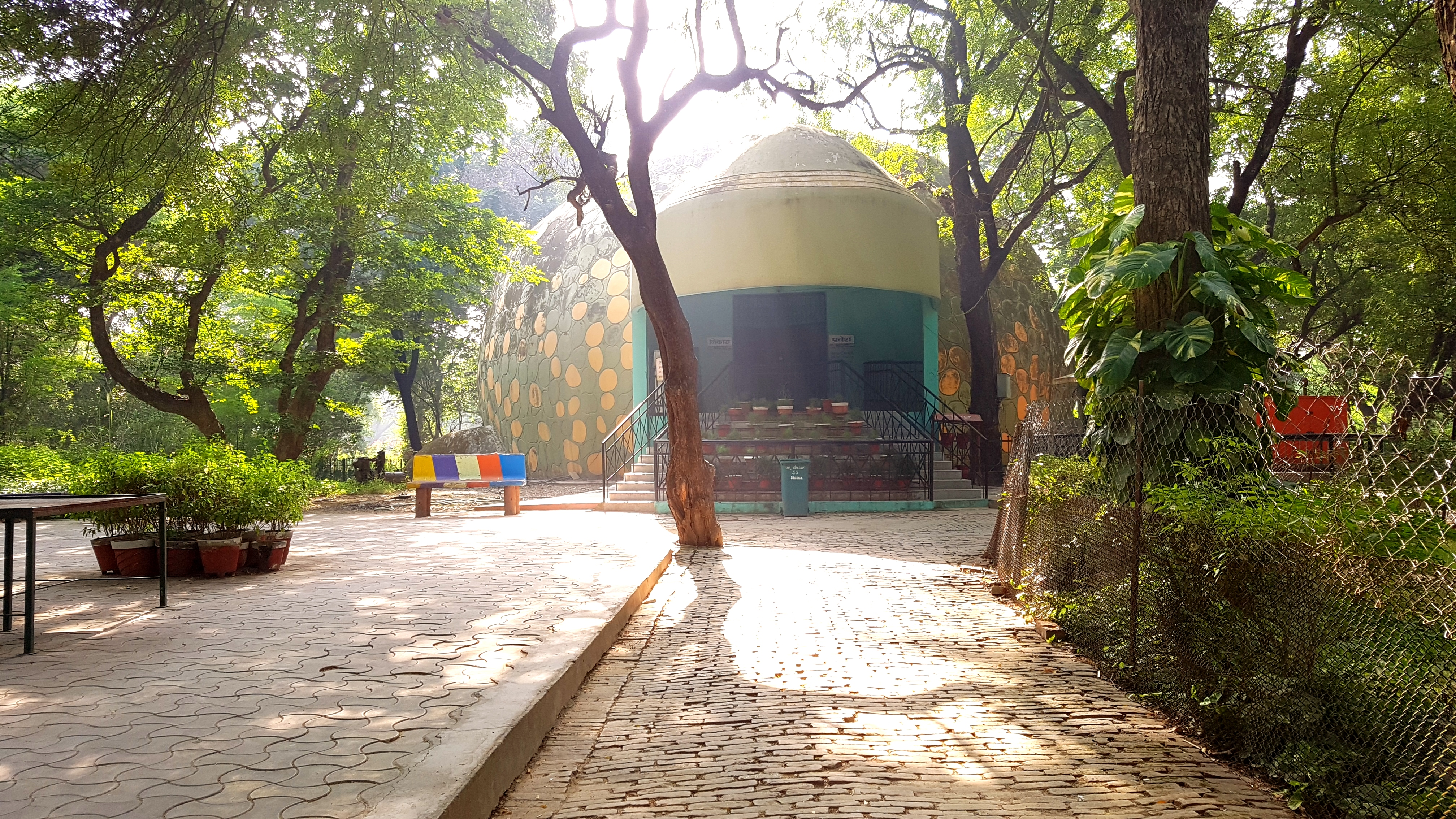 Aquarium main gate